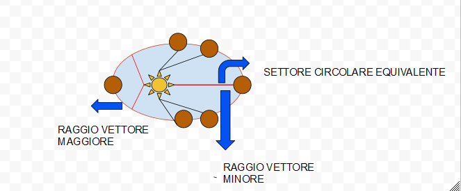 rappresentation of the Kepler 's second scientific law